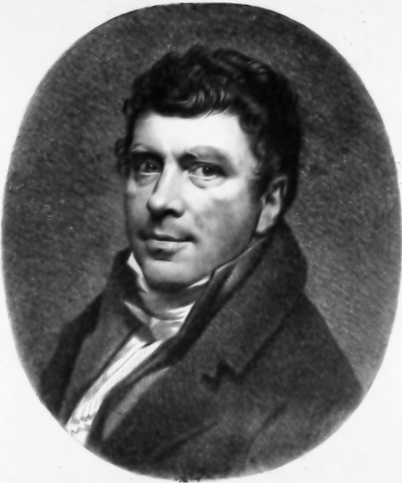 Willem Bartel van der Kooi 1788 - 1836